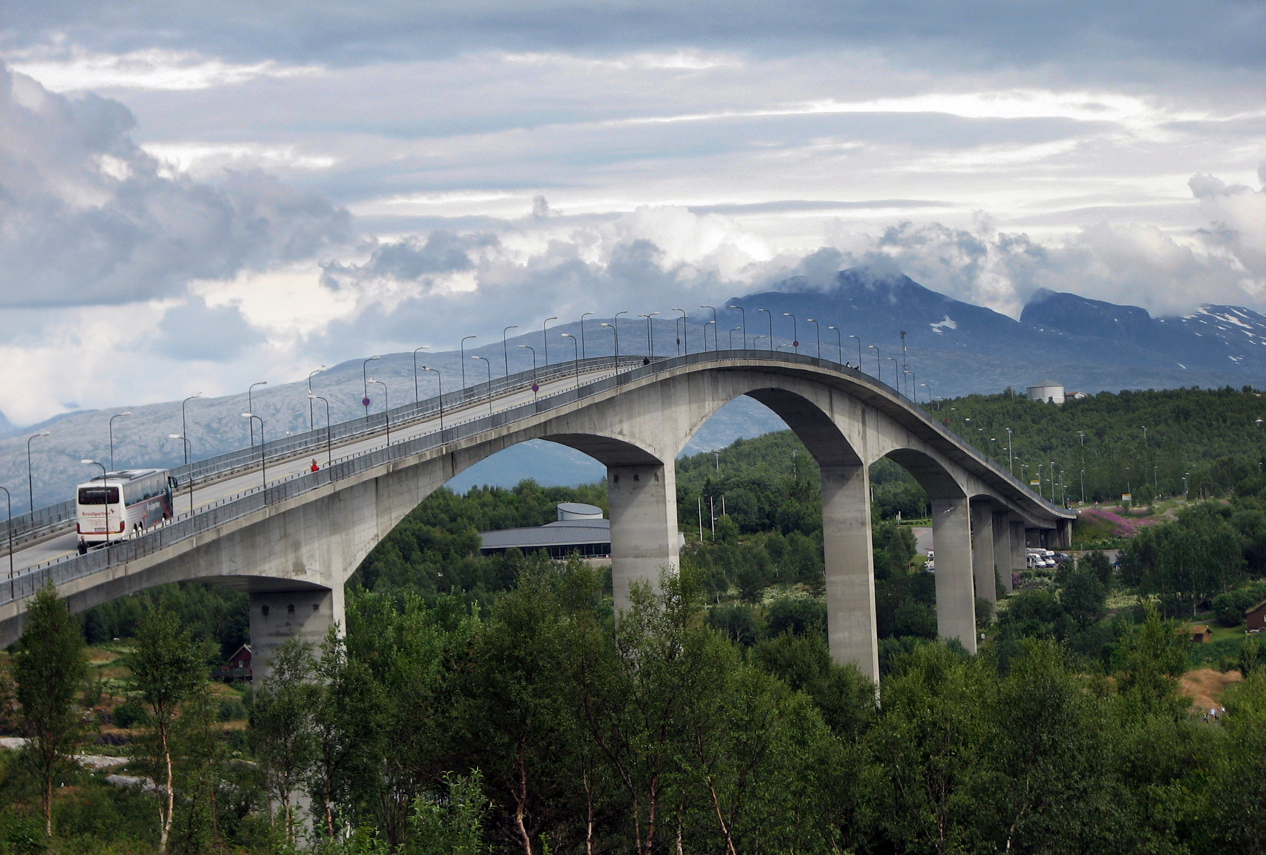 Saltstraumen Bridge